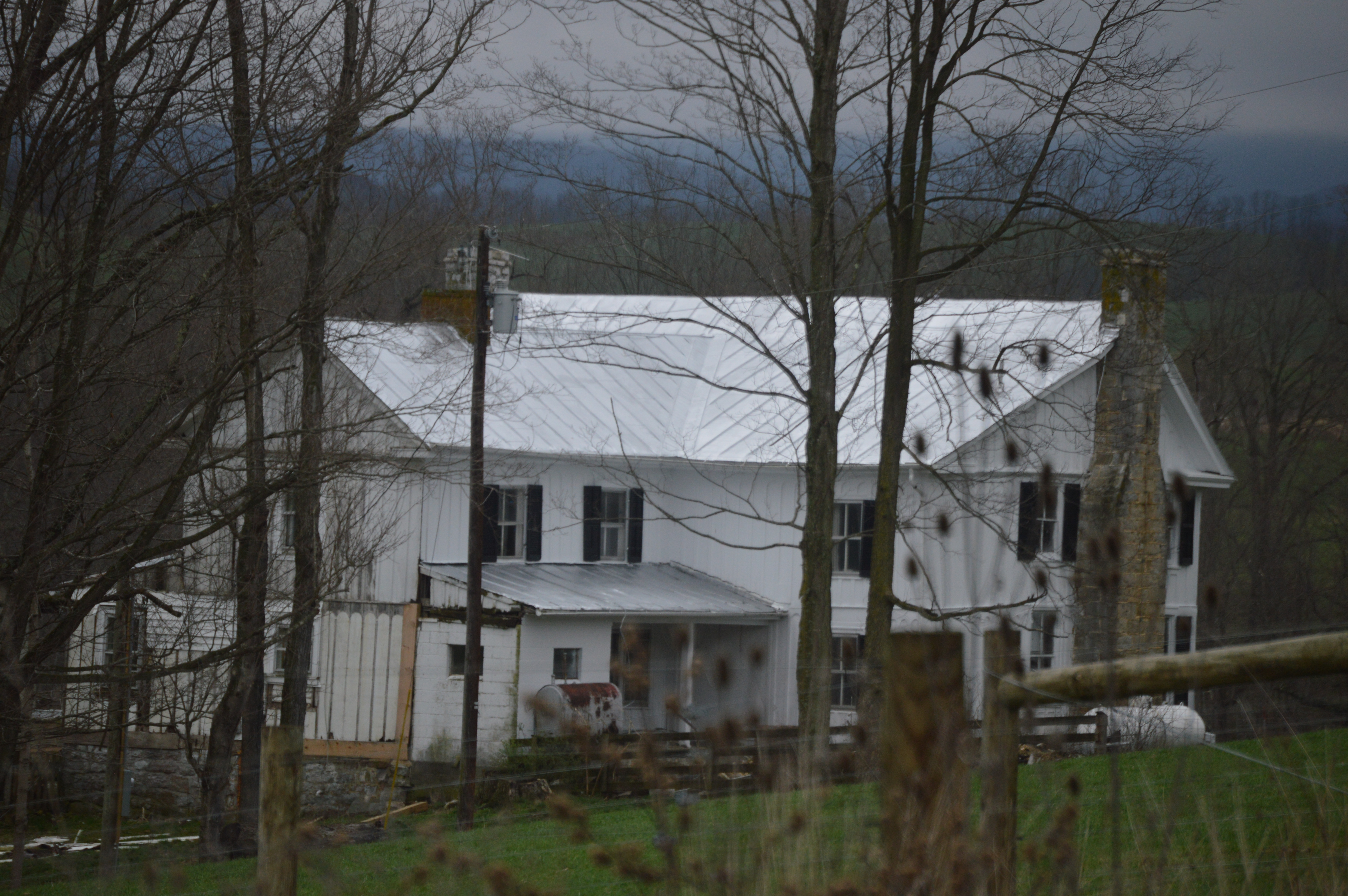 Rear and southwestern side of the Byrnside-Beirne-Johnson House, located along Willow Bend Road south of Union in Monroe County, West Virginia, United States. Built in 1770 and later expanded, it is listed on the National Register of Historic Places.